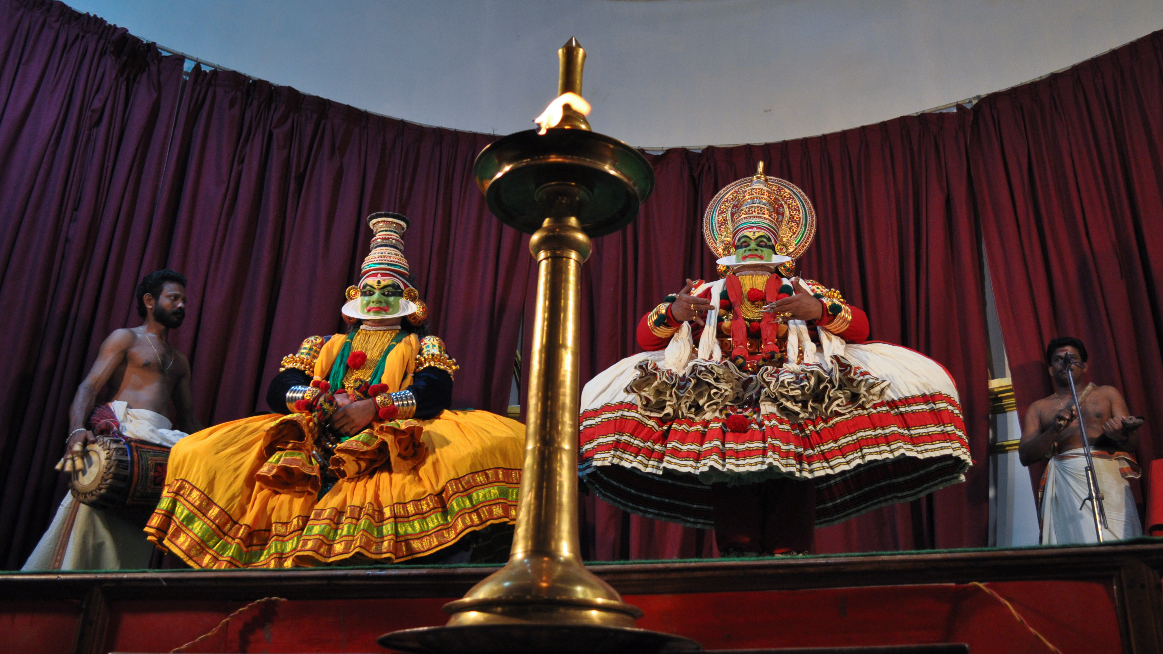 Kathakali performance in front of a big lamp.